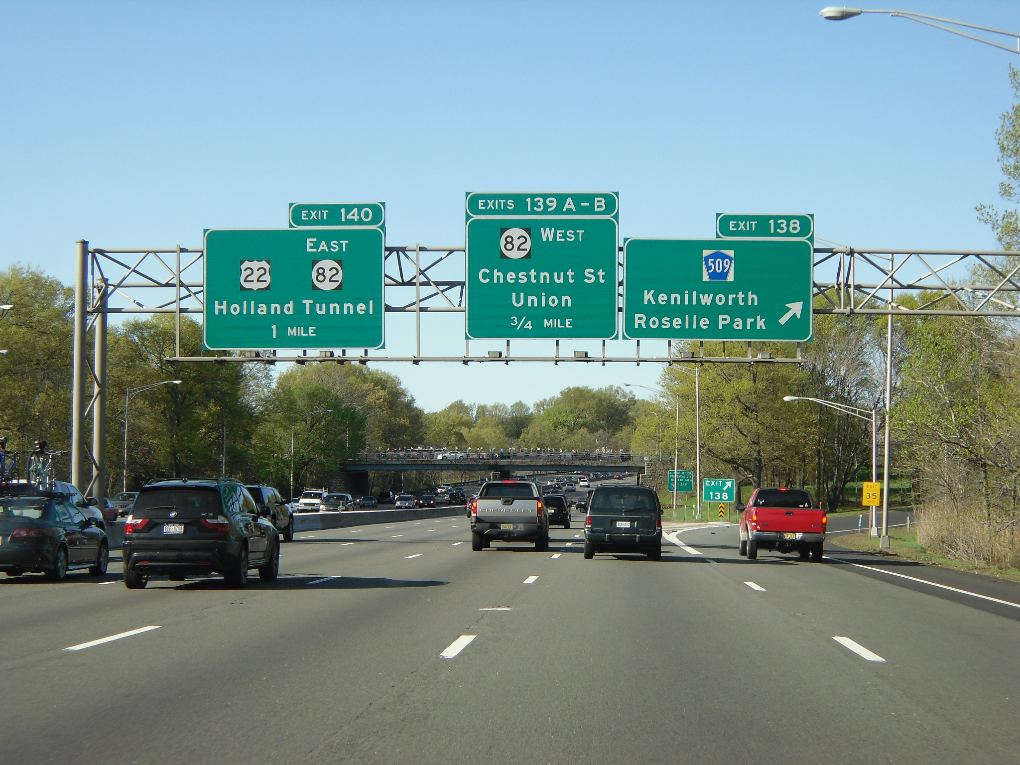 Garden State Parkway - New Jersey